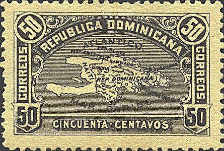 A 1900 stamp of the Dominican Republic (Mi. 91).